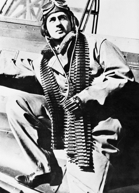 Flight Lieutenant William Ellis Newton VC of No. 22 Squadron RAAF beside his aircraft, with ammunition belt draped around his neck. He was awarded the Victoria Cross posthumously following his execution by being beheaded at Salamaua by the Japanese on 1943-03-29, after being shot down over Salamaua Isthmus, New Guinea.